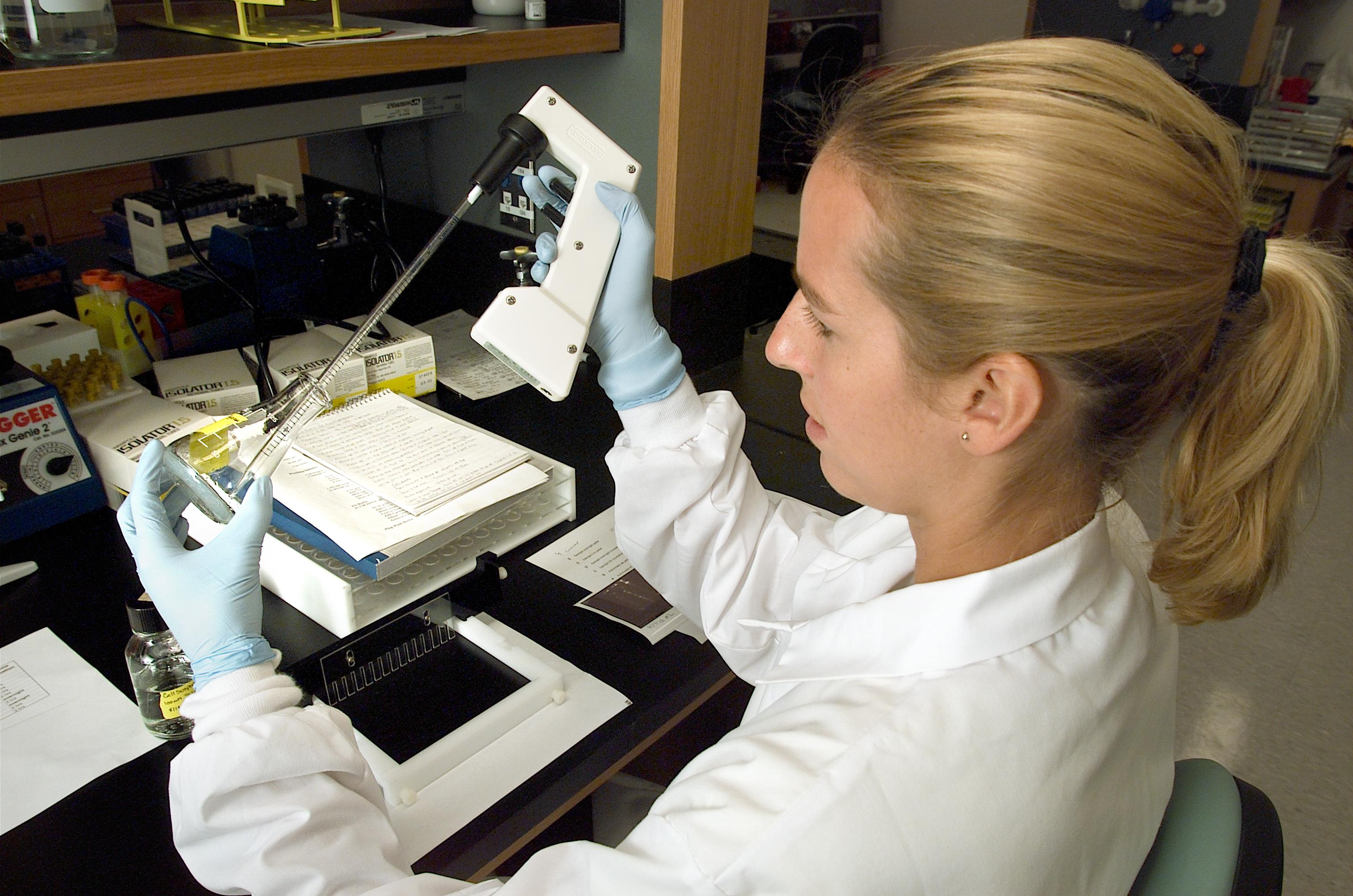 Renee Galloway, a microbiologist in the Centers for Disease Control’s Meningitis and Special Pathogens Branch (MSPB), in the National Center for Infectious Diseases (NCID), was shown here running a Pulsed-field Gel Electrophoresis (PFGE) analytical test, which is used in the typing of bacterial organisms. The Meningitis and Special Pathogens Branch is responsible for monitoring an eclectic group of bacterial infections and disease syndromes of public health importance. The branch is organized into programs on meningitis, which focuses on Neisseria meningitidis, Streptococcus pneumoniae, and Haemophilus influenzae, vaccine-preventable diseases of childhood, which deals with Bordetella pertussis and Corynebacterium diphtheriae, zoonotic pathogens, which works with Bacillus anthracis, Brucella spp., Leptospires, and “non-tuberculosis” mycobacterial infections, and unexplained deaths and other emerging infections.